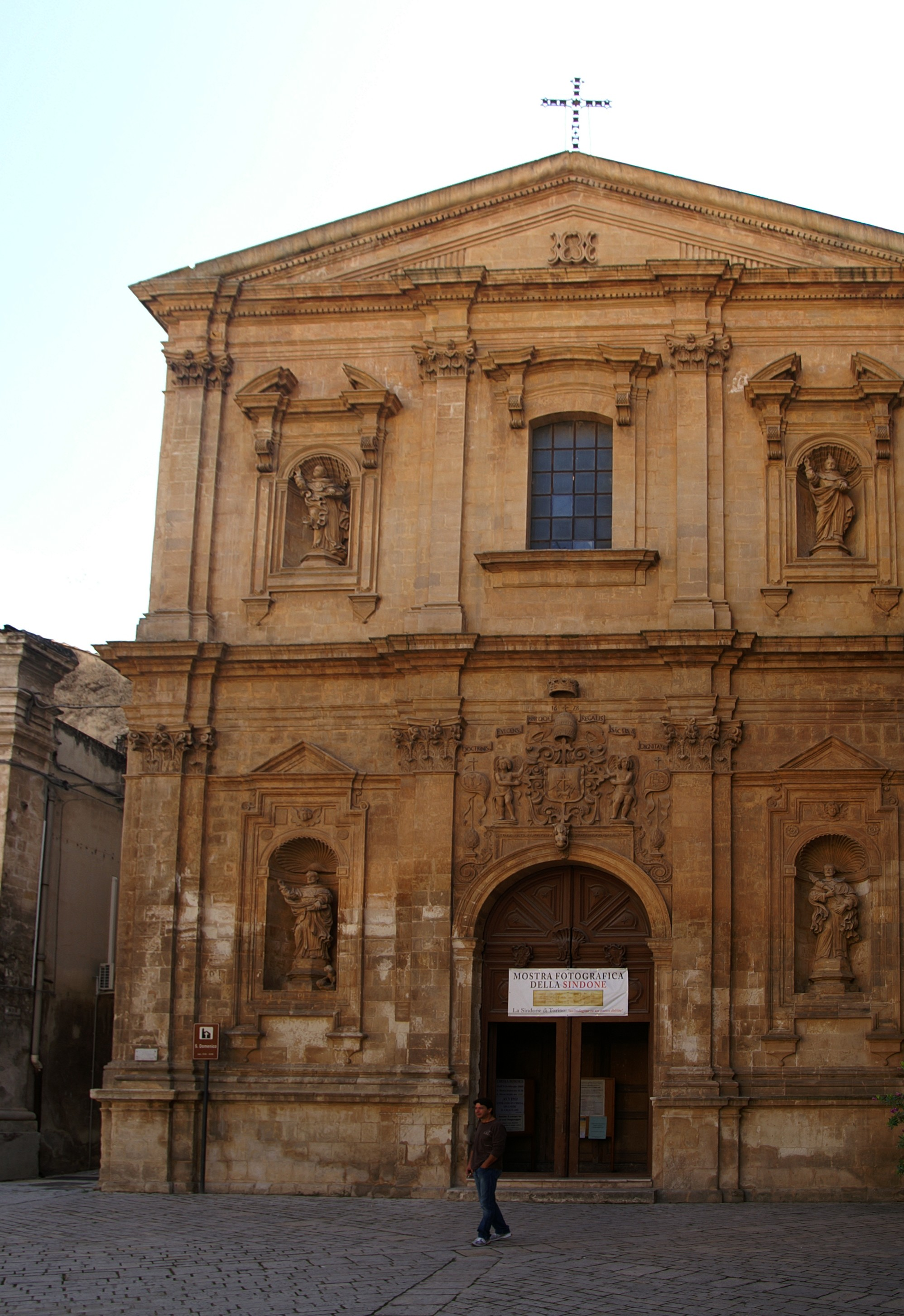 Modica: Chiesa di San Domenico